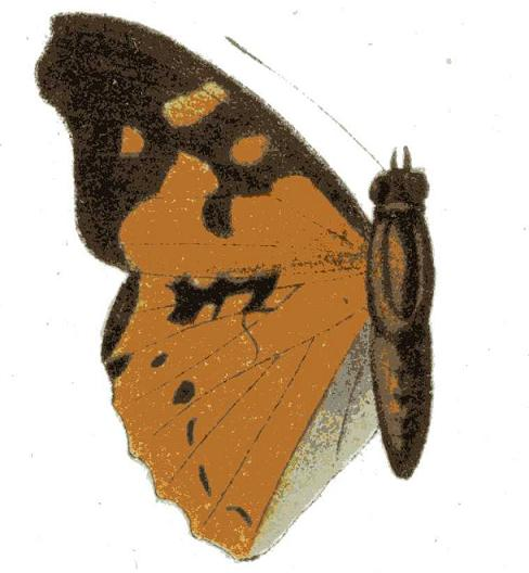 SeitzFaunaAfricana Apaturopsis kilusa(Grose-Smith, 1891)